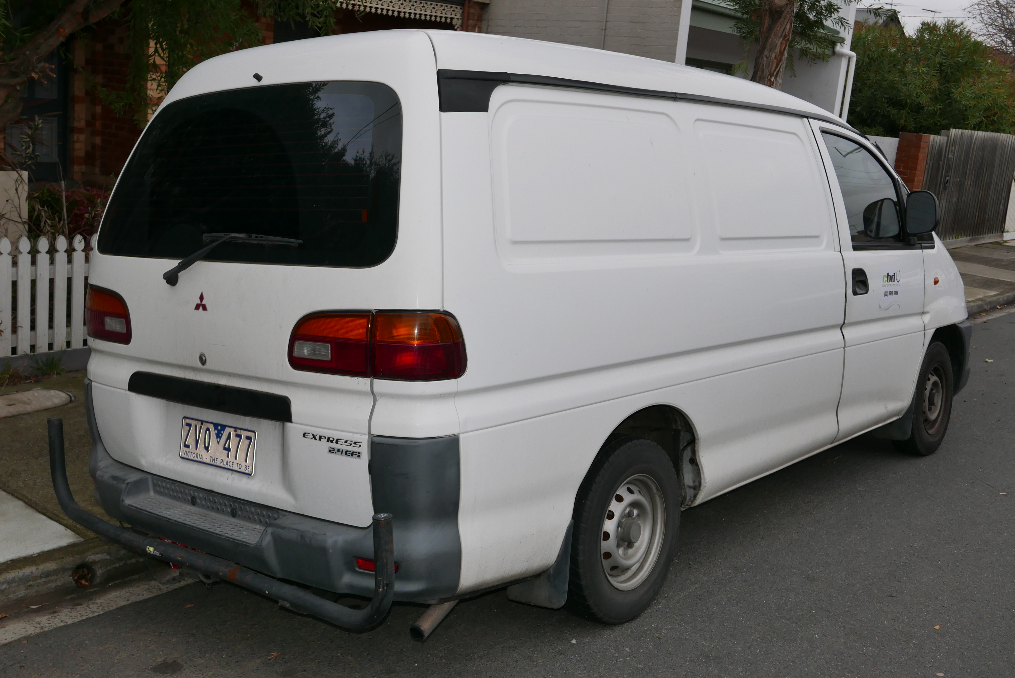 2004 Mitsubishi Express (WA MY04) van. Photographed in Northcote, Victoria, Australia. Vehicle registration enquiry results Jurisdiction Victoria Registration ZVQ477 Chassis code JMFJNPB4V4A000281 Engine code 4G64KB1640 Compliance date 2004-04 Year of manufacture 2004